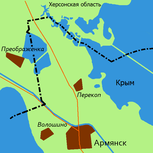 North of the Perekop Isthmus. Border of Russia and Ukraine de facto